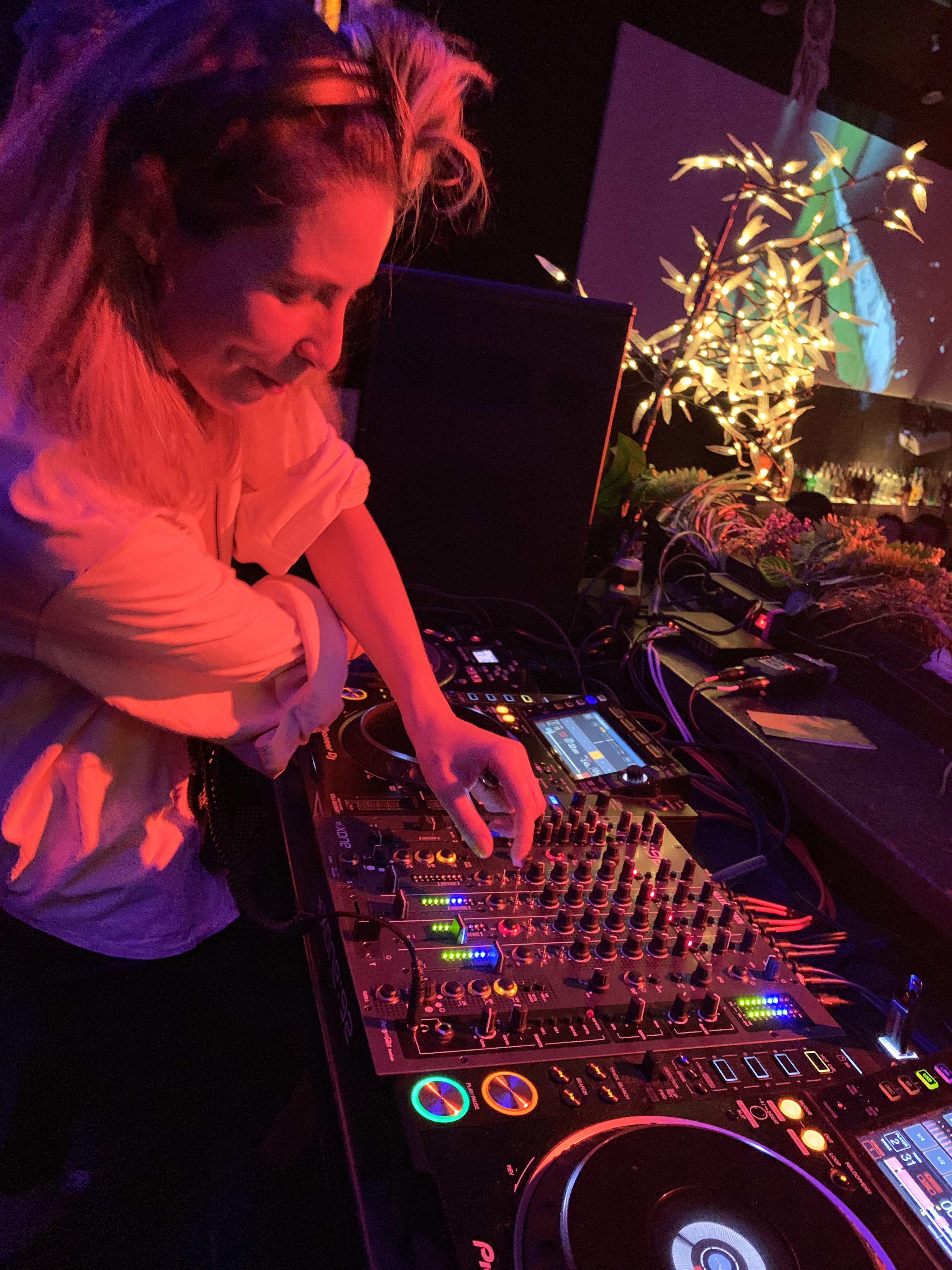 Dj Blond:ish mixing at a night club in March 2019